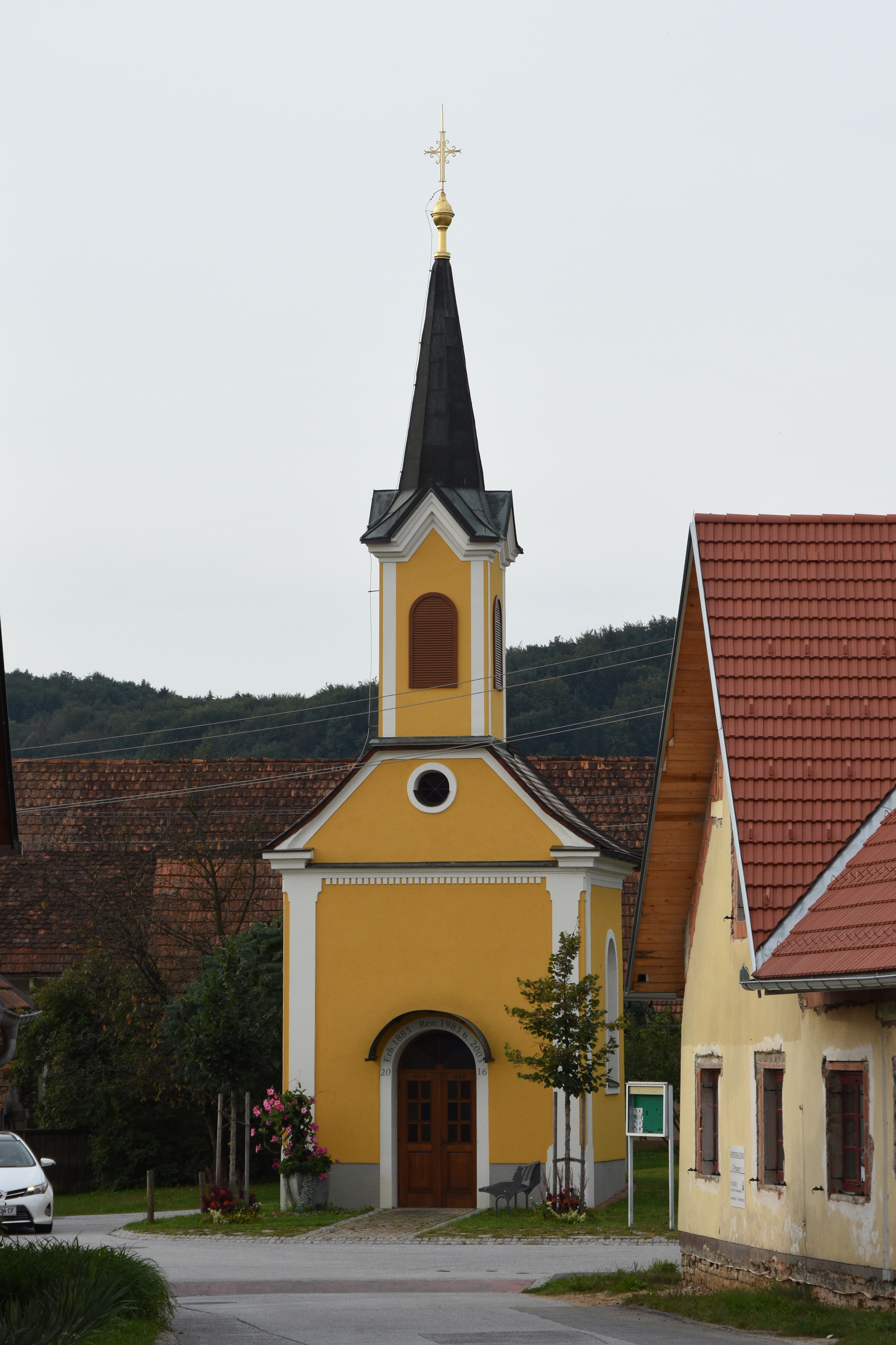 Chapel Neudorf bei Ilz